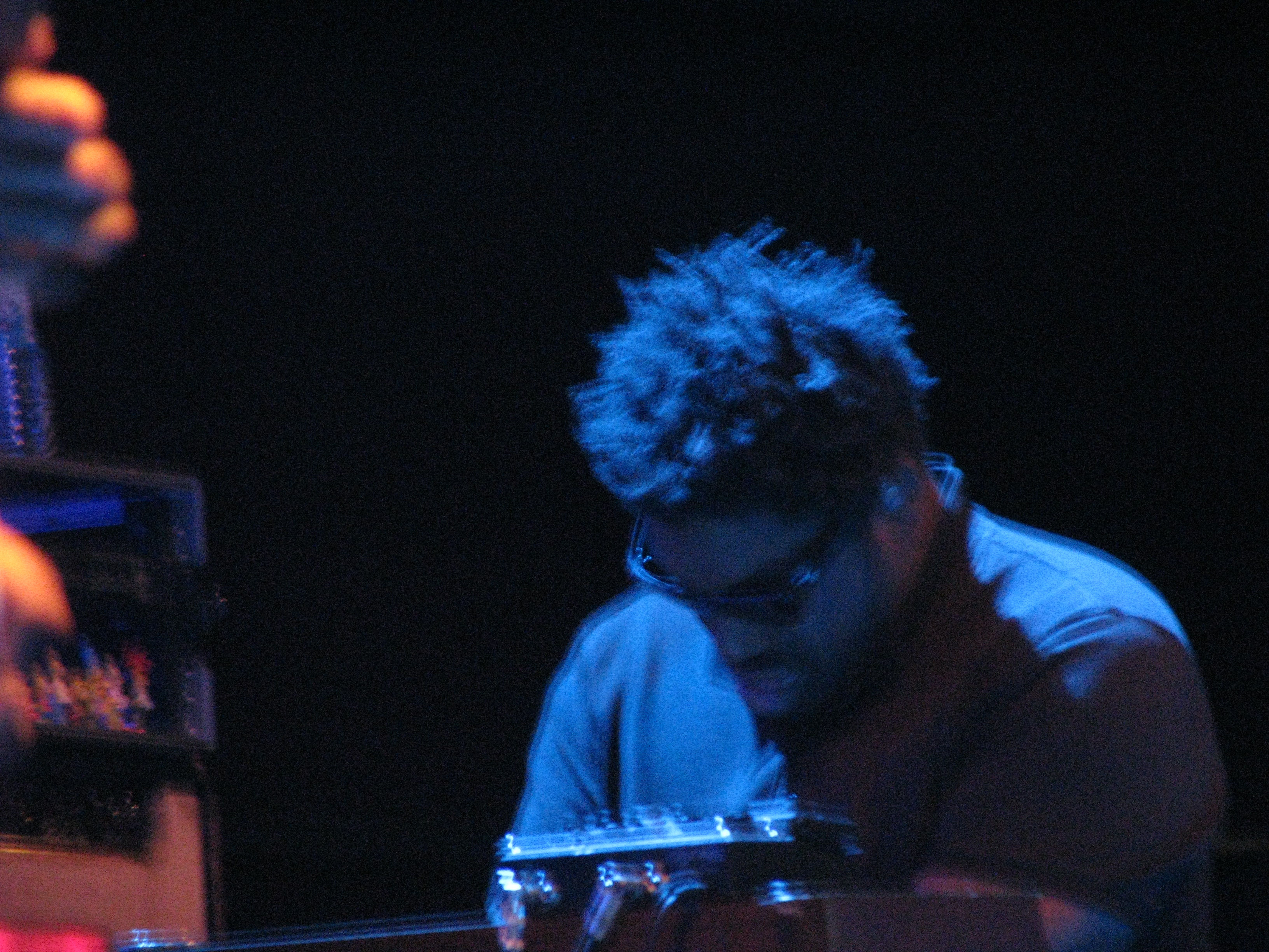 Ikey Owens, a keyboard player for the Mars Volta, performing in the Roy Wilkins Auditorium in St. Paul, MN.